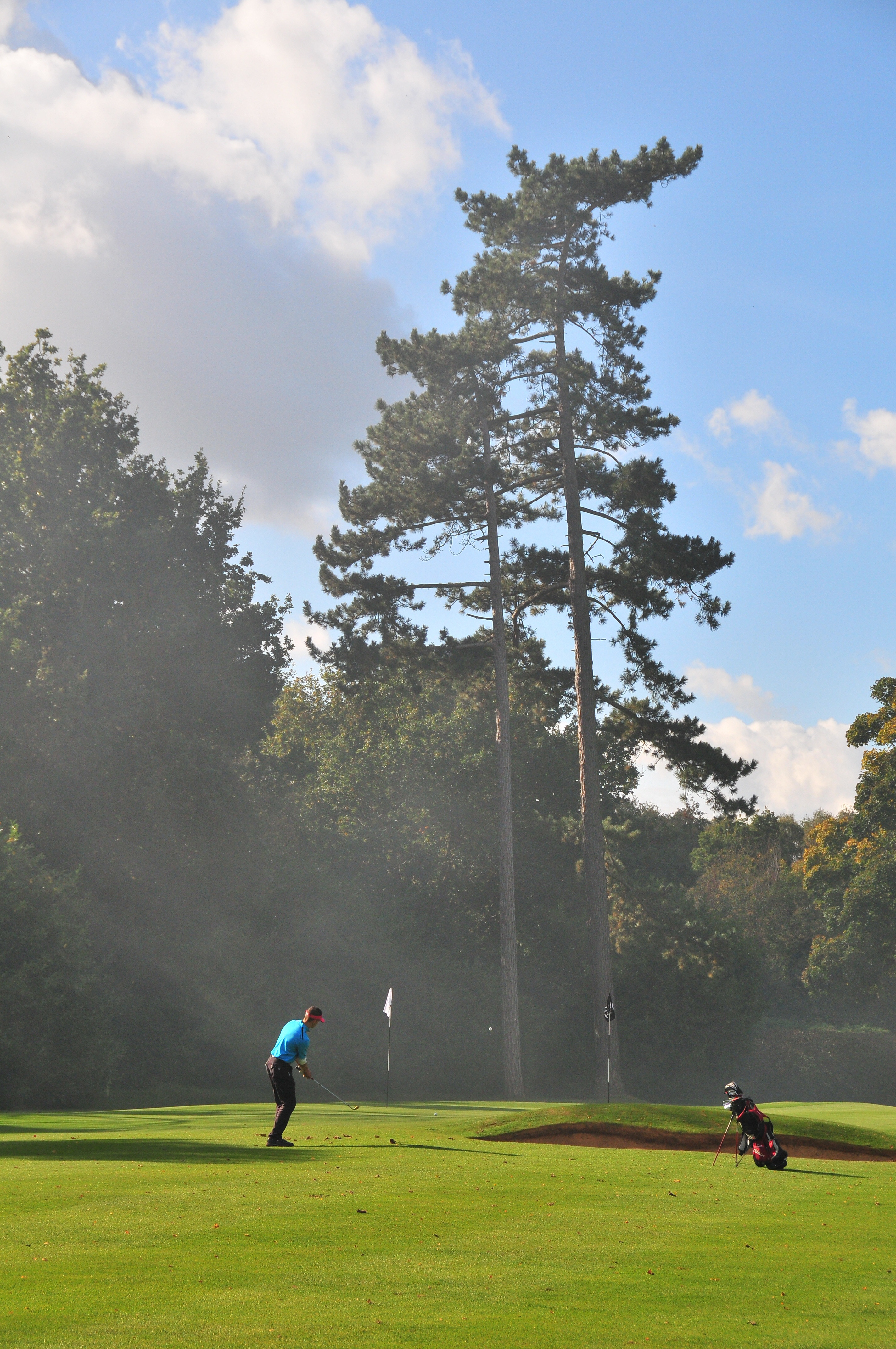 PGA Pro plays to PowerPlay Golf's black flag at Frilford Heath GC in the PGA PowerPlay Golf 2008 Championship.jpg